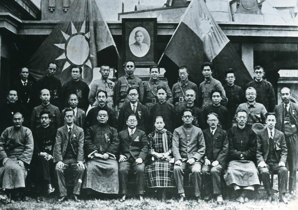 Kuomingtang's 3rd Plenary Session of 2nd Central Committee